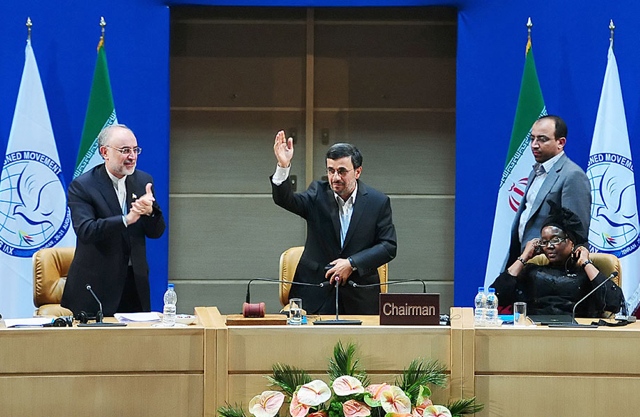 Closing ceremony of the Non-Aligned Movement (NAM) summit with the presence of members’ heads of state with an inaugural speech by supreme leader of Iran, Ayatollah Ali Khamenei.